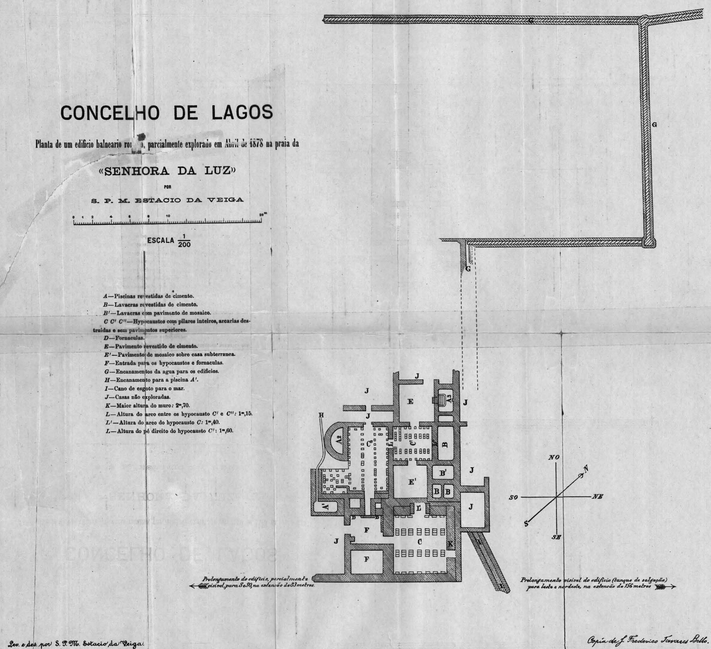 Floor plan of roman thermae and its aqueduct at the town of Luz, part of Lagos municipality, in Portugal. This image was published in the work "O Archeologo Português", series I, volume XV, of 1910, provided by Direcção Geral do Património Cultural.